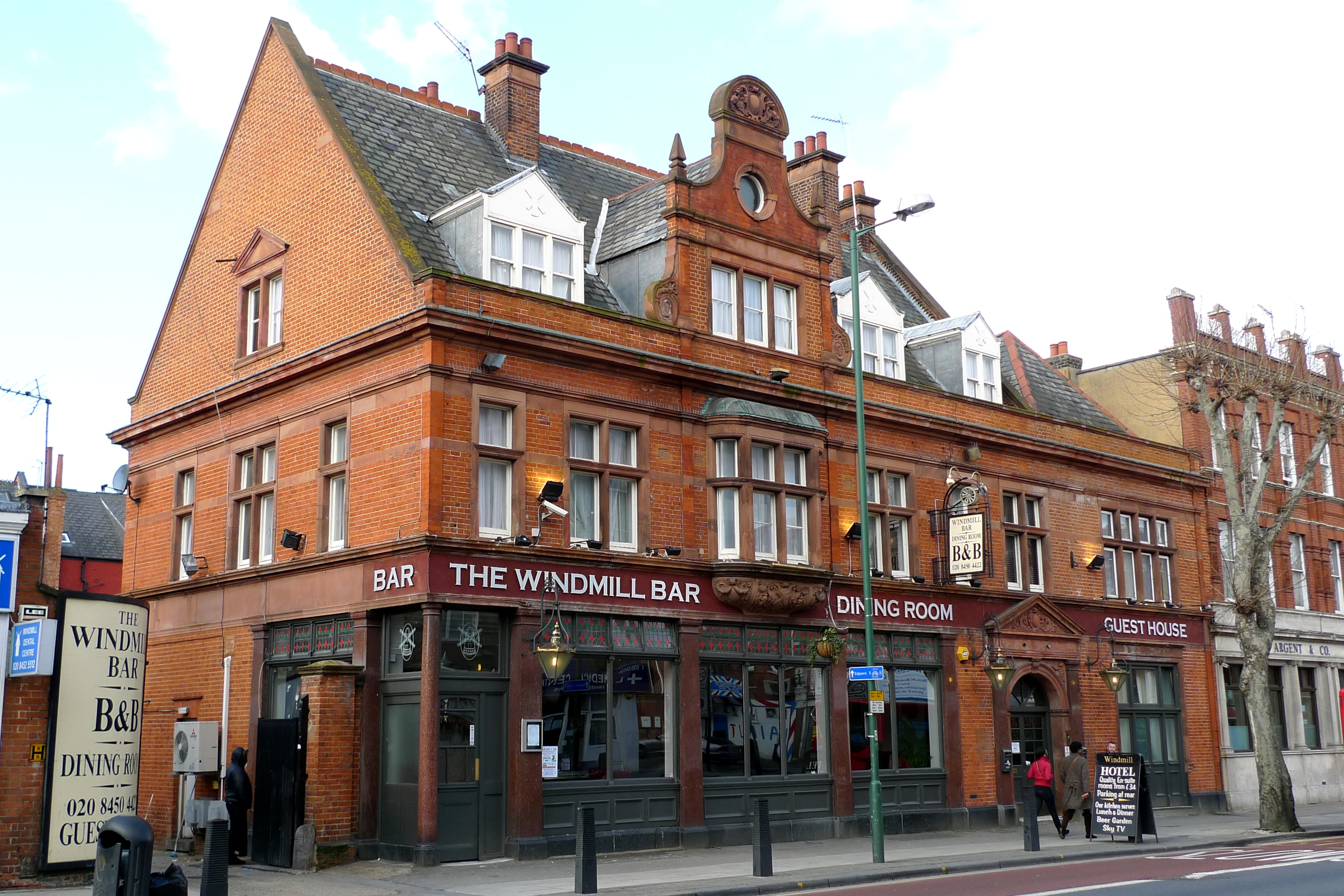 One of the older drinking establishments on this stretch of road. Address: 57 Cricklewood Broadway. Former Name(s): The Windmill Hotel. Owner: (website); Punch Taverns [Spirit Group] (former); Taylor Walker (former). Links: Fancyapint Beer in the Evening Dead Pubs (history)